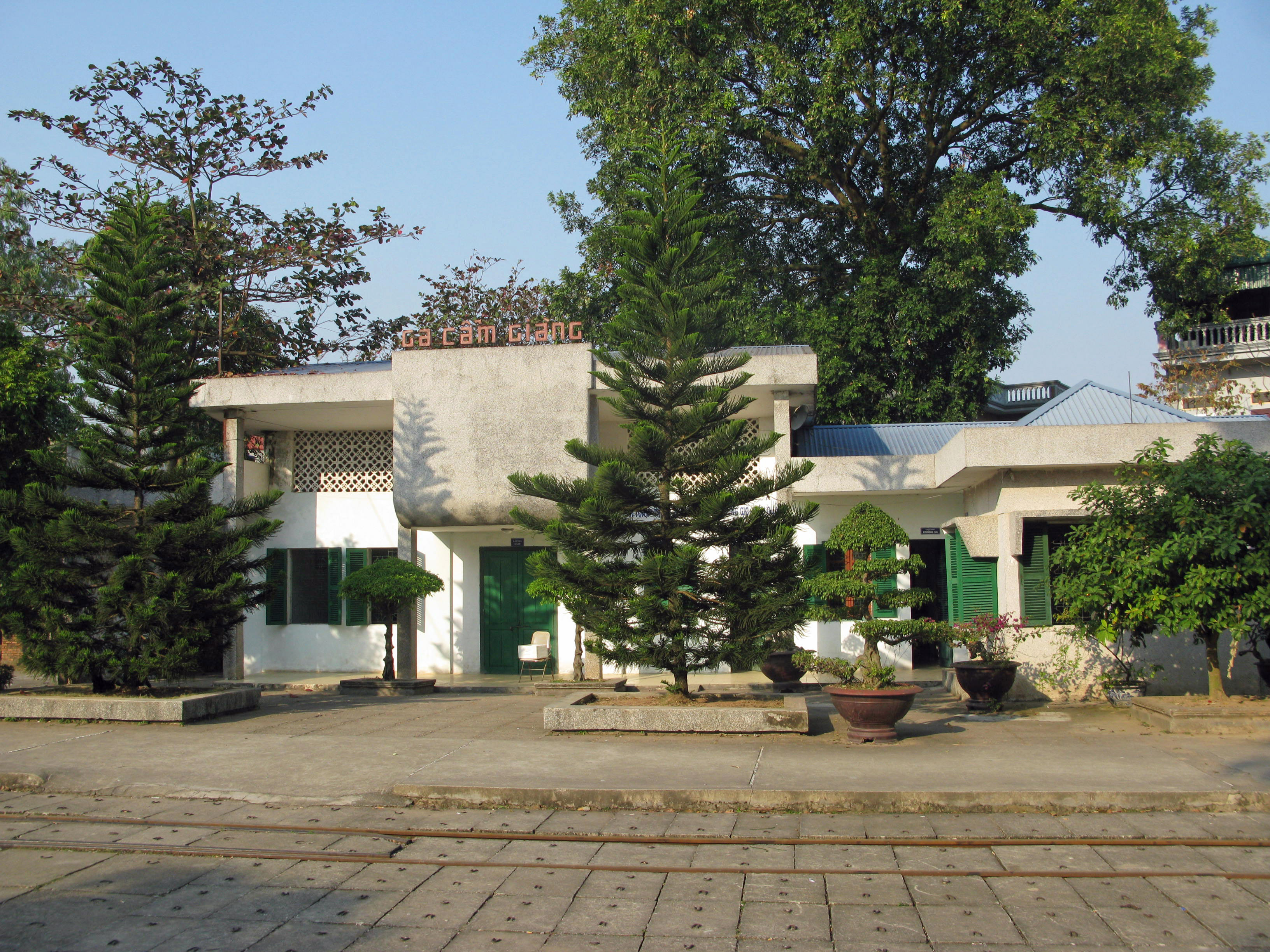 The Railway Station Building in Cam Giang